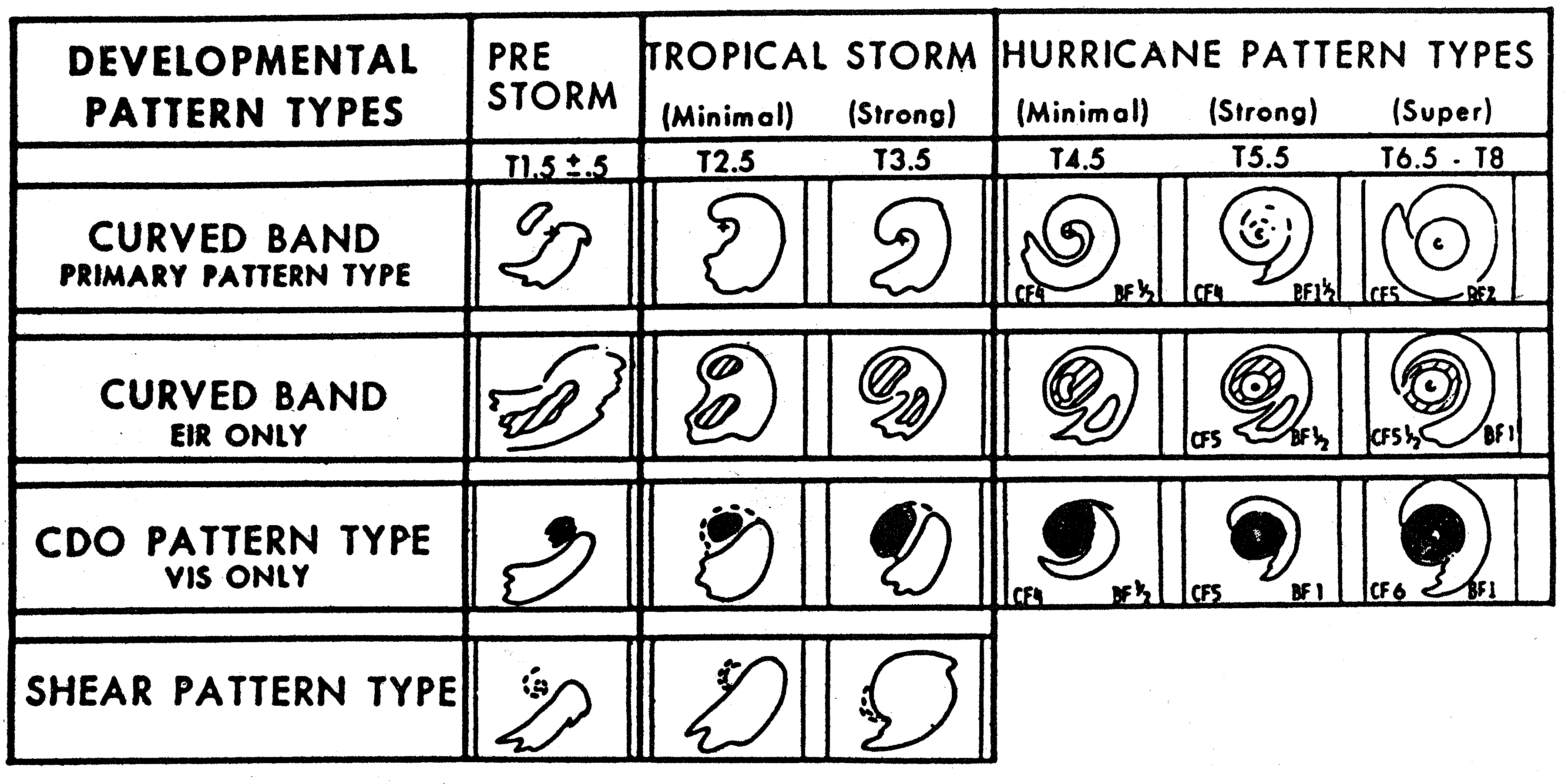 This image shows common cloud patterns used in the Dvorak satellite tropical cyclone intensity estimation technique